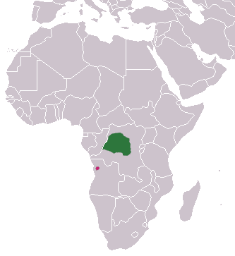 Angolan Kusimanse (Crossarchus ansorgei) range (green - extant, pink - probably extant)